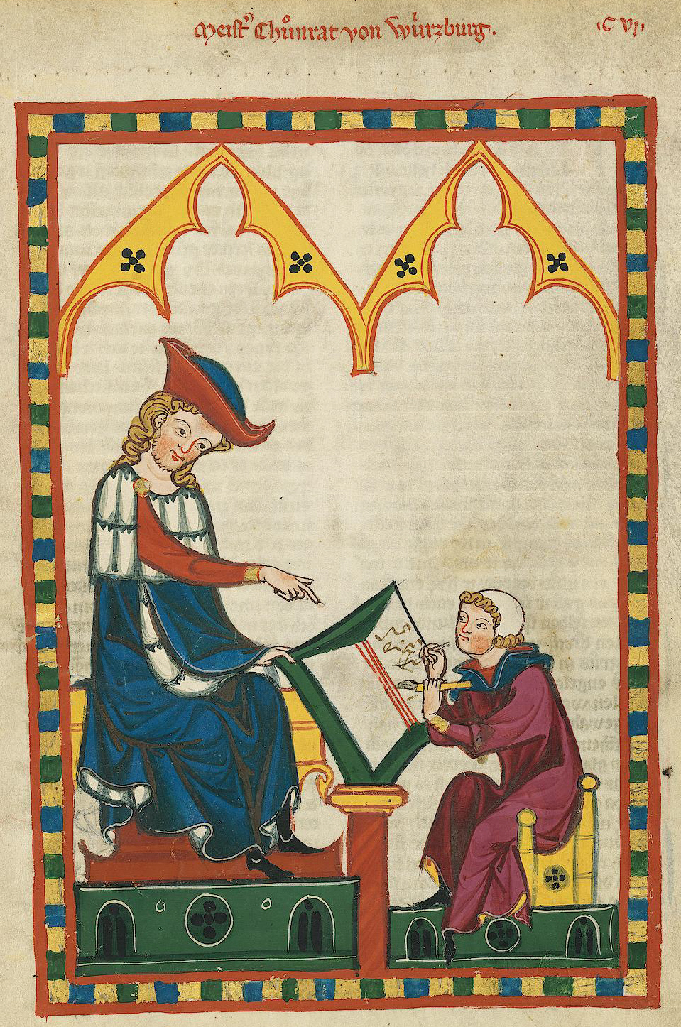 Codex Manesse, fol. 383r, Meister Konrad von Würzburg